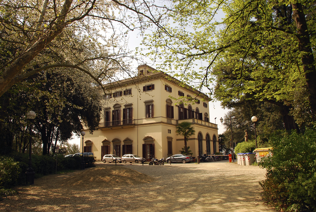 Il Boschetto or Villa Strozzi Park, Florence, Italy. Villa Strozzi Building. South-West Facade. Overview from the Lemon House.